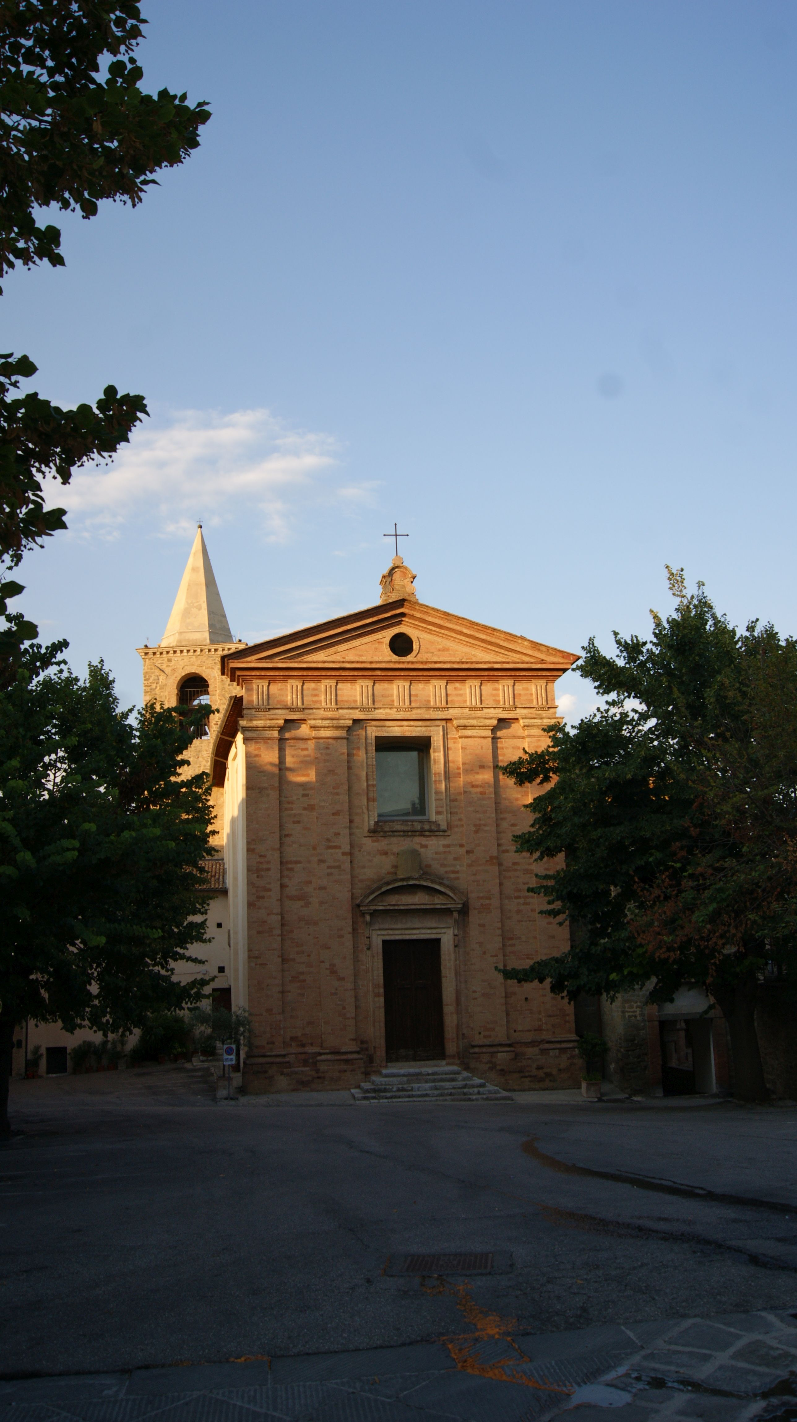 Bettona, Italy. Village church.